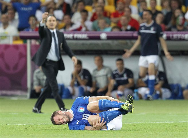 Antonio Cassano at Euro 2012 final Spain-Italy